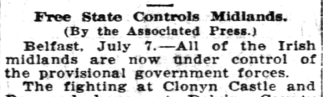 Typical Associated Press byline, this example showing the Irish Civil War underway in 1922.